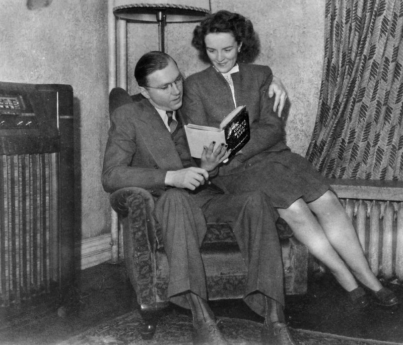 John Biesanz and Mavis Hiltunen Biesanz with their first book 'Costa Rican Life'